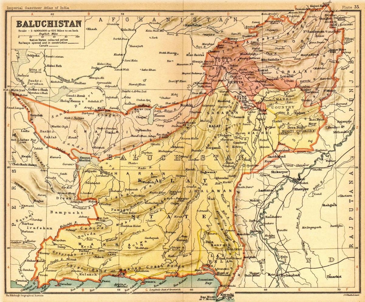 Map of Beluchistan